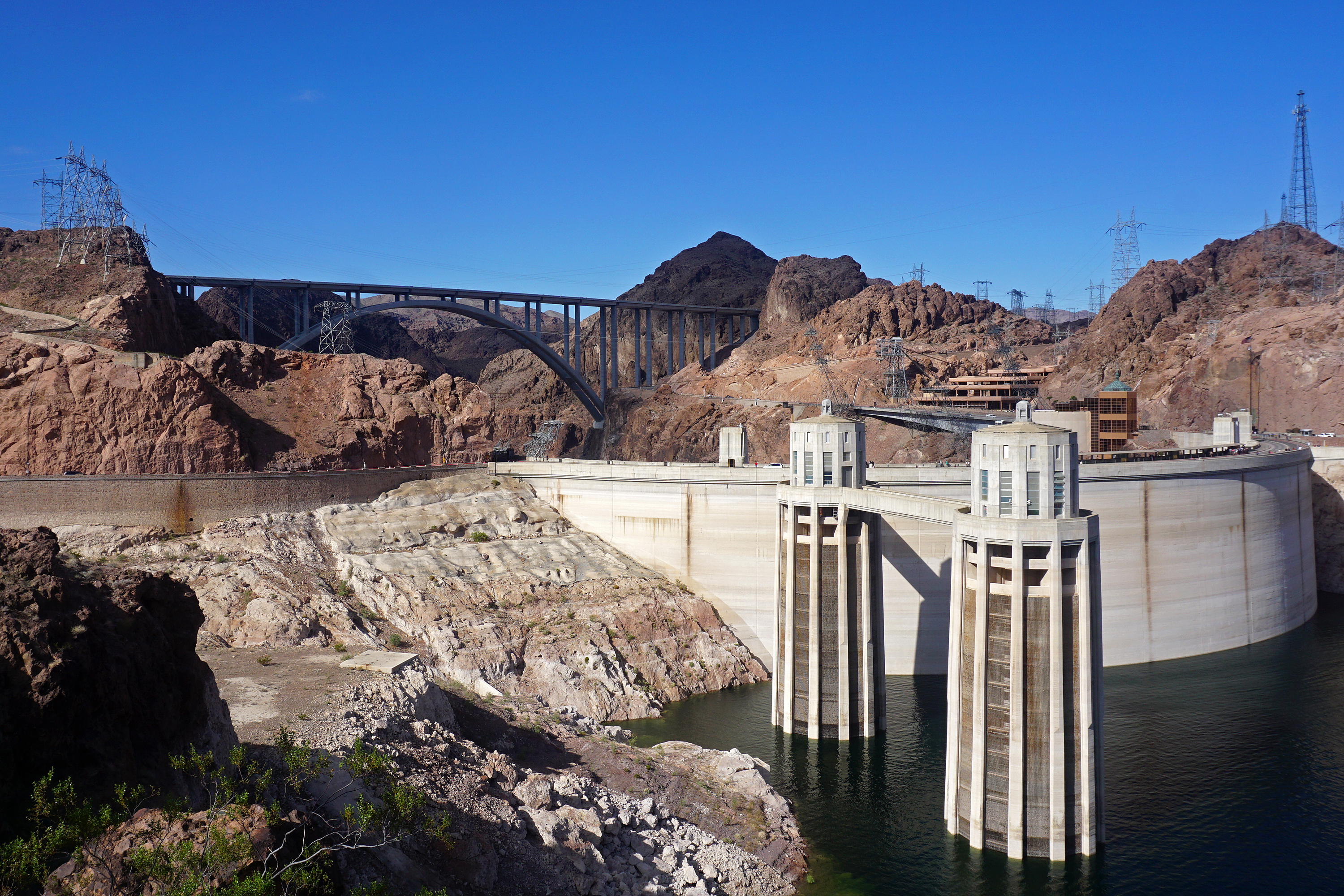 Hoover Dam and Mike O'Callaghan–Pat Tillman Memorial Bridge over the Colorado River viewed from Arizona side parking